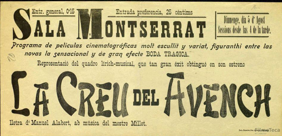 Poster of a Catalan cinema, ca. 1910.